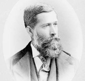 Hon. Adam Crooks, D.C.L., Q.C., Liberal Member of the Ontario Legislative Assembly for West Toronto and first Provincial Treasurer